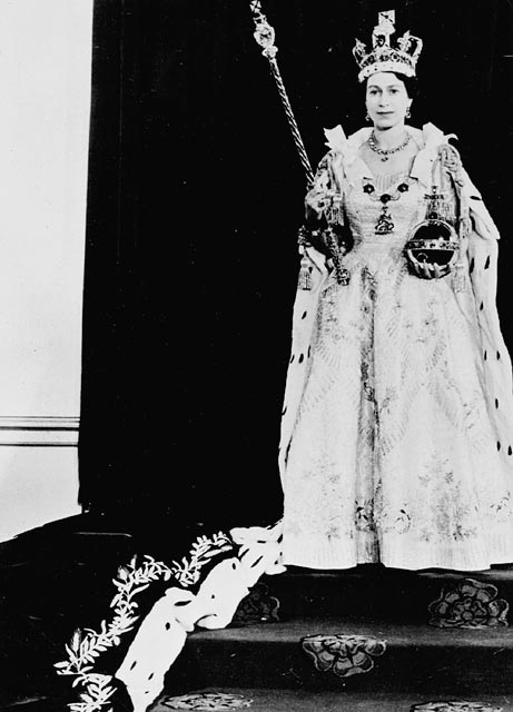 Title / Titre : H.M. Queen Elizabeth II wearing her Coronation robes and regalia / S.M. la Reine Elizabeth II portant sa robe de couronnement et les insignes royaux Creator(s) / Créateur(s) : Jim Lynch Date(s) : June 1953 / juin 1953 Reference No. / Numéro de référence : MIKAN 3194652, 3624812 Location / Lieu : London, England / London, Angleterre Credit / Mention de source : Jim Lynch. National Film Board of Canada. Photothèque. Library and Archives Canada, C-018846 / Jim Lynch. Office national du film du Canada. Photothèque. Bibliothèque et Archives Canada, C-018846